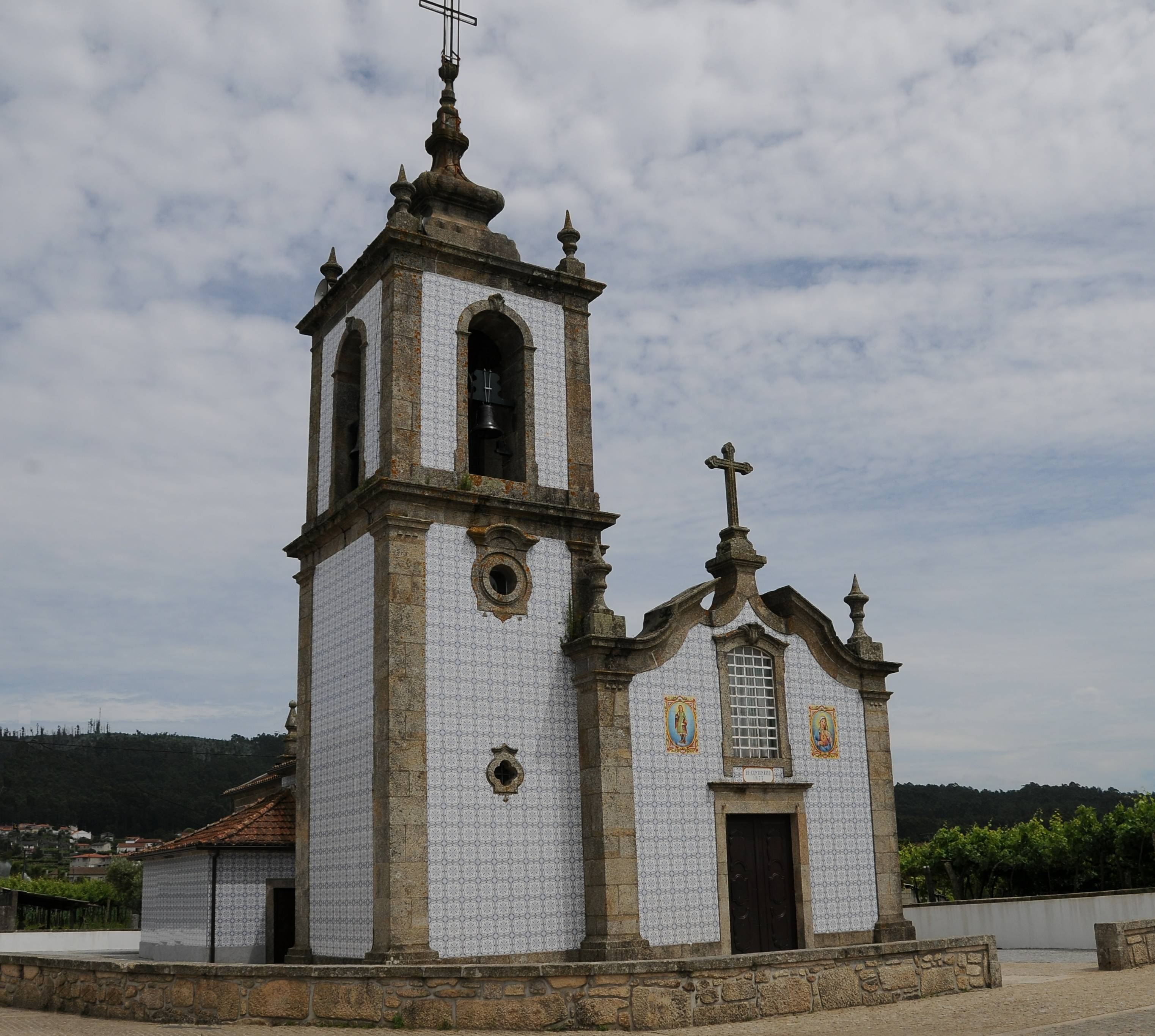 Milhases Church, in Milhases, Barcelos, Portugal